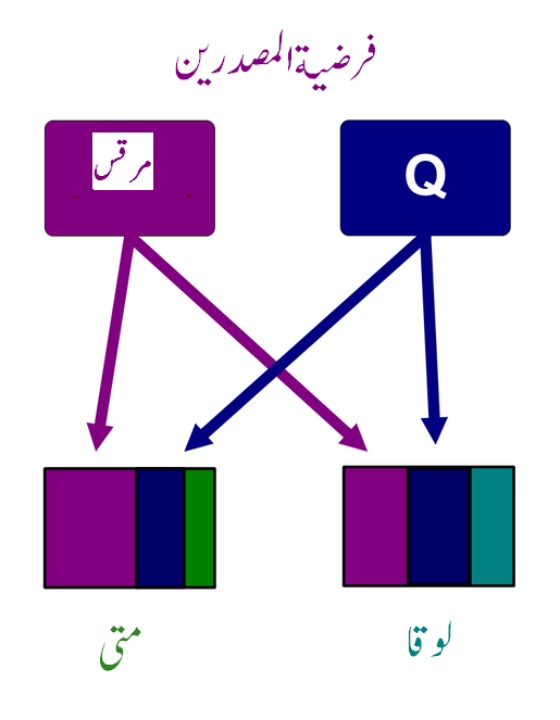 The Two-source Hypothesis to the synoptic problem